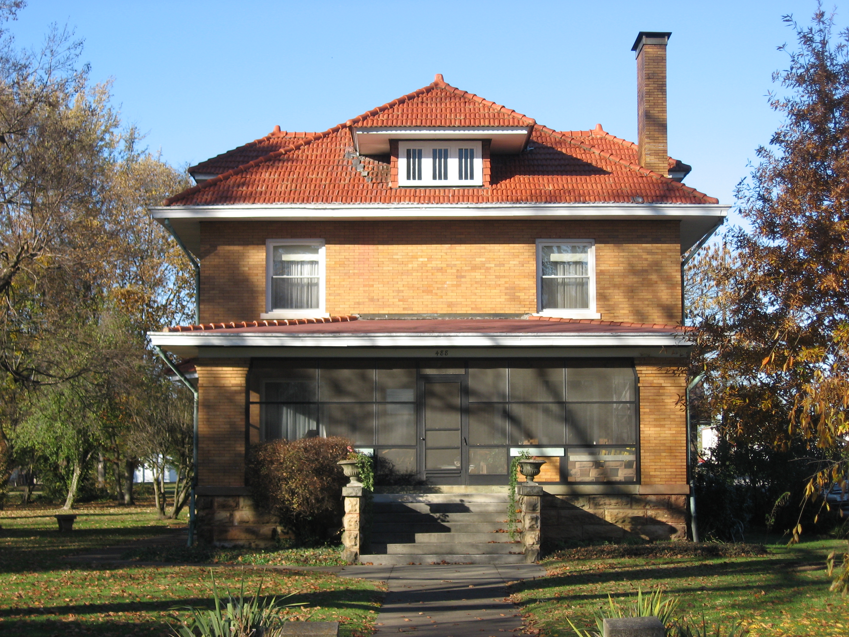 Front of the Rock Jenkins House, located at 488 E. Liberty Road in Orleans, Indiana, United States. Built in 1909, it and the surrounding property are listed together on the National Register of Historic Places.